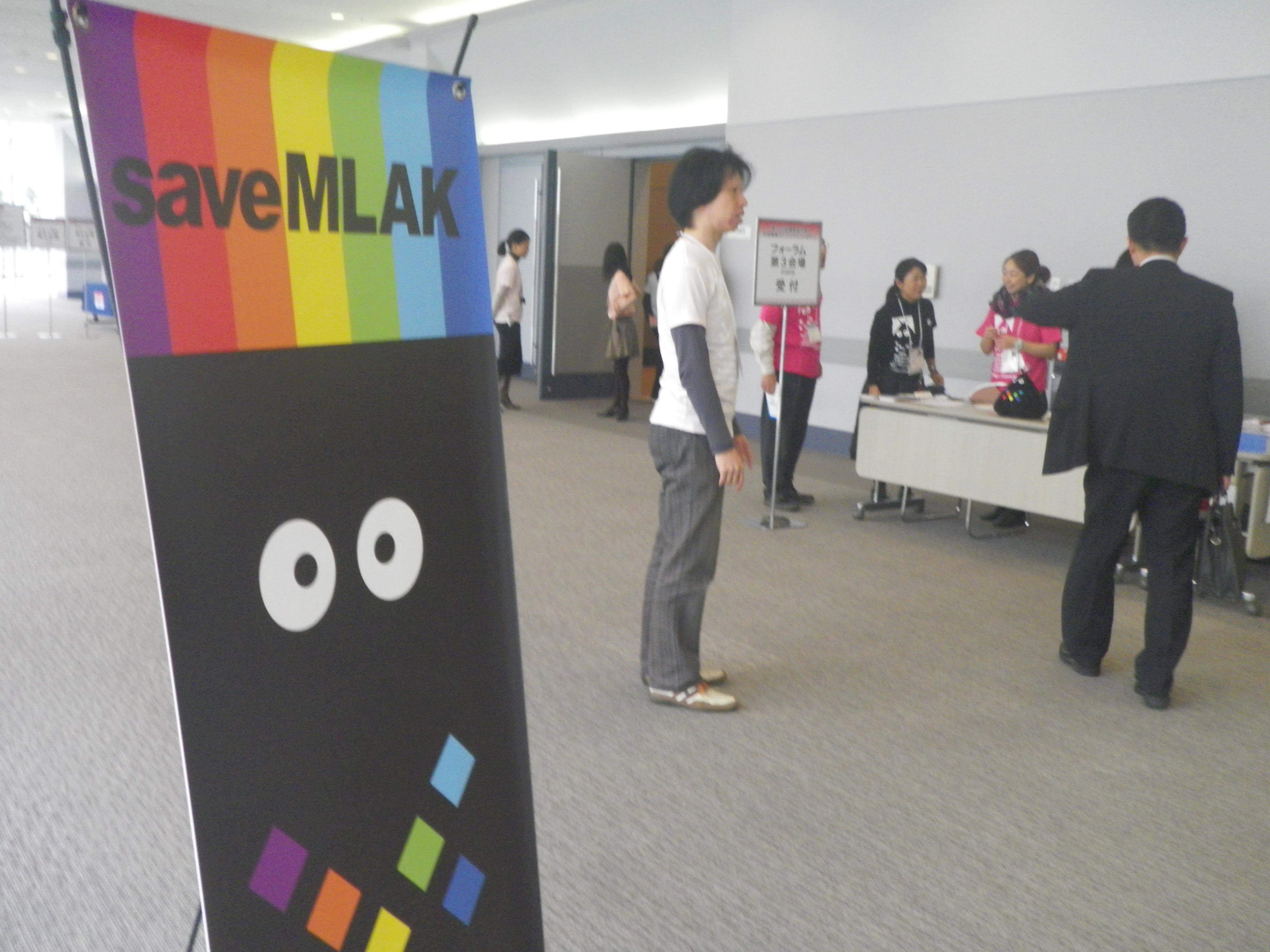 taken at a forum entitled "Recovering from Disasers: What we can do for the future events" in Yokohama at the 13th Library Fair. organized by saveMLAK project.